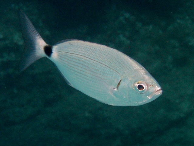 Oblada melanura photographed in Corse, France.